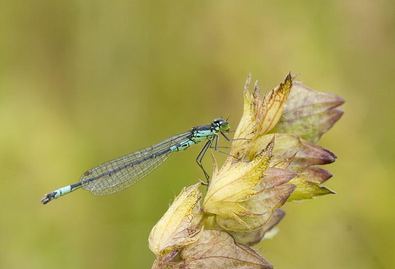 Coenagrion armatum – male. Location: Sweden - Hudiksvall